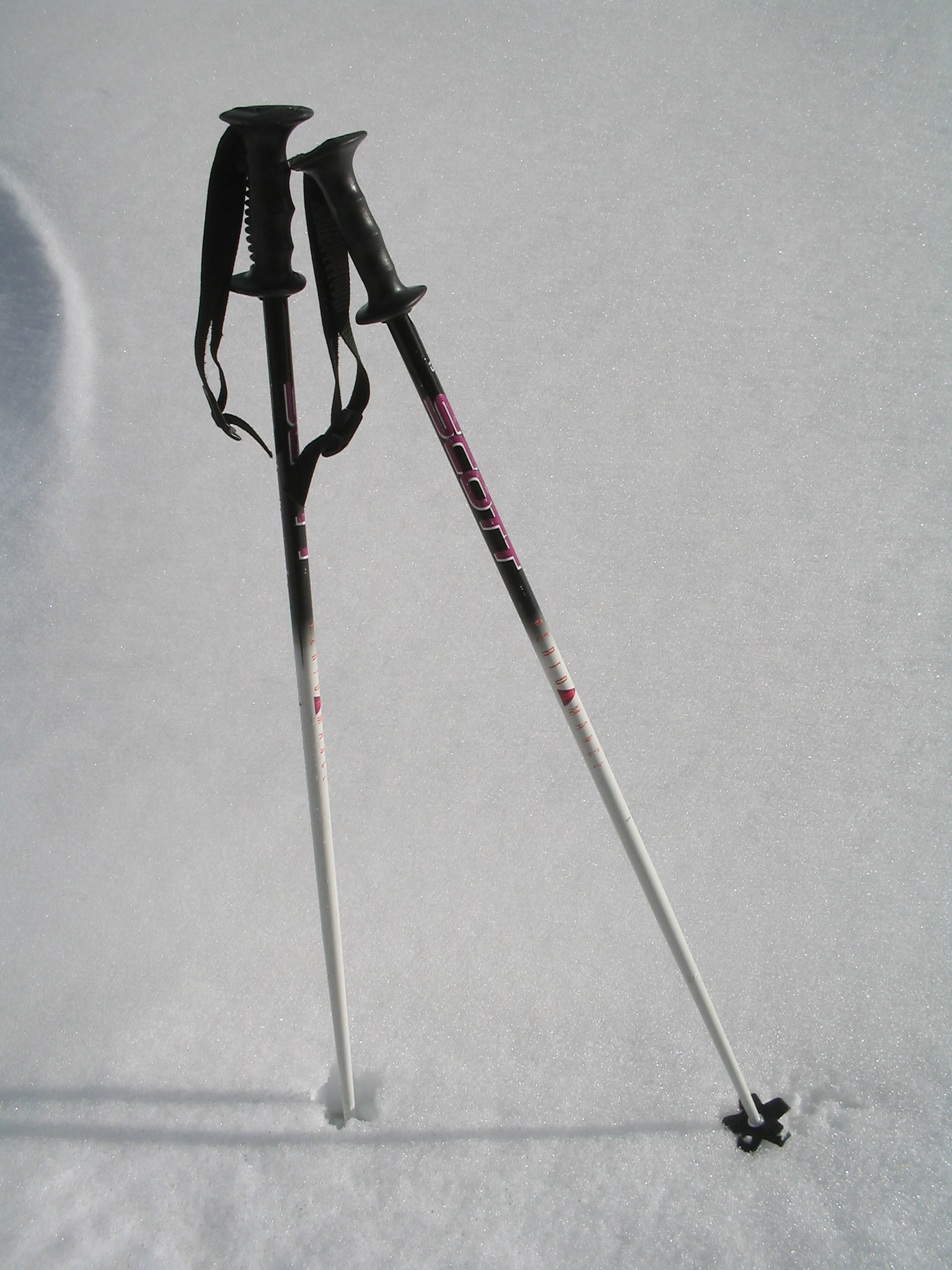 A pair of modern ski poles. They are about 4 feet tall, and made of aluminum. I took the photograph today, Friday March 4, 2005.